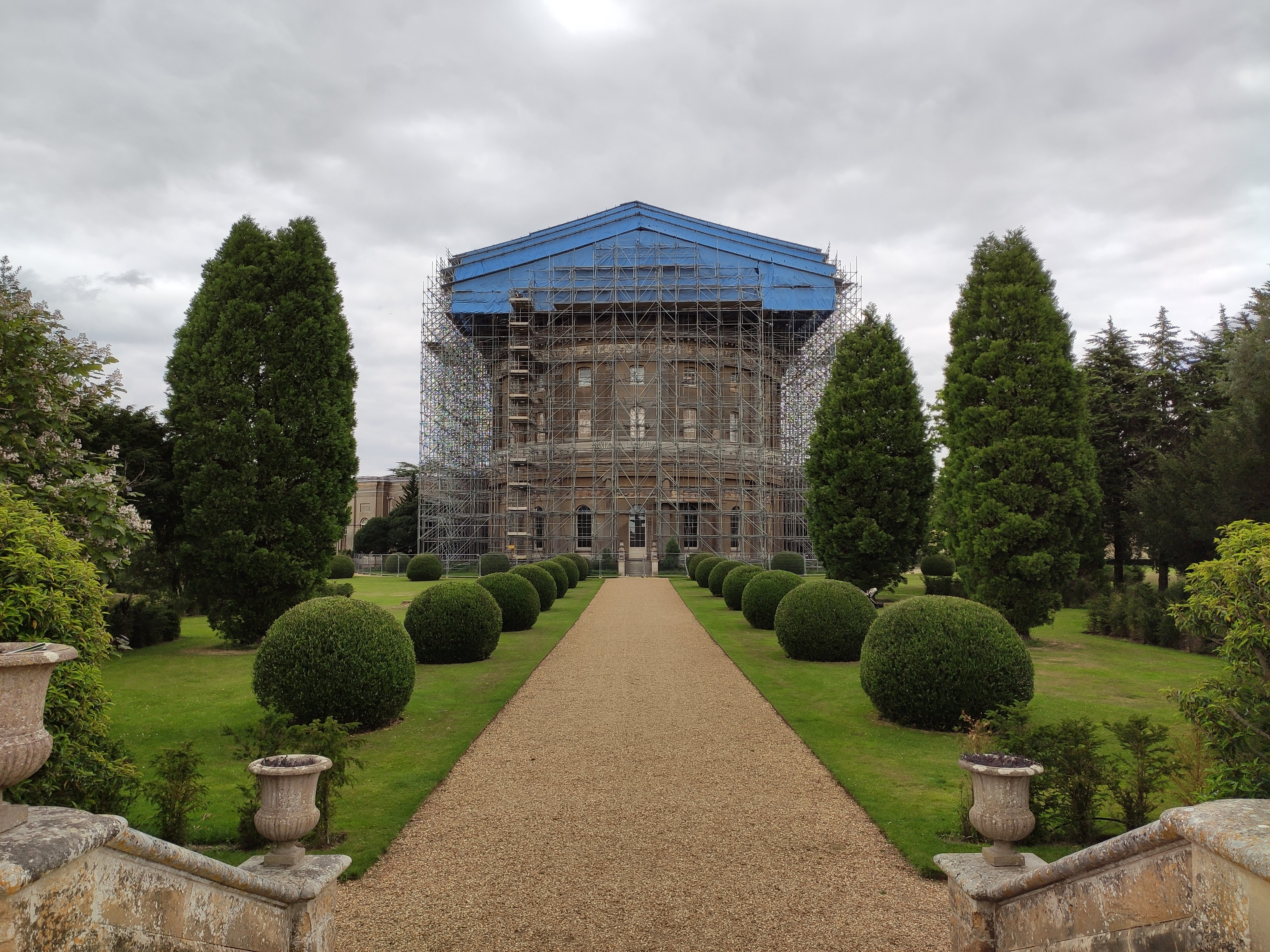 The renovation of the Ickworth House facade during summer 2020.